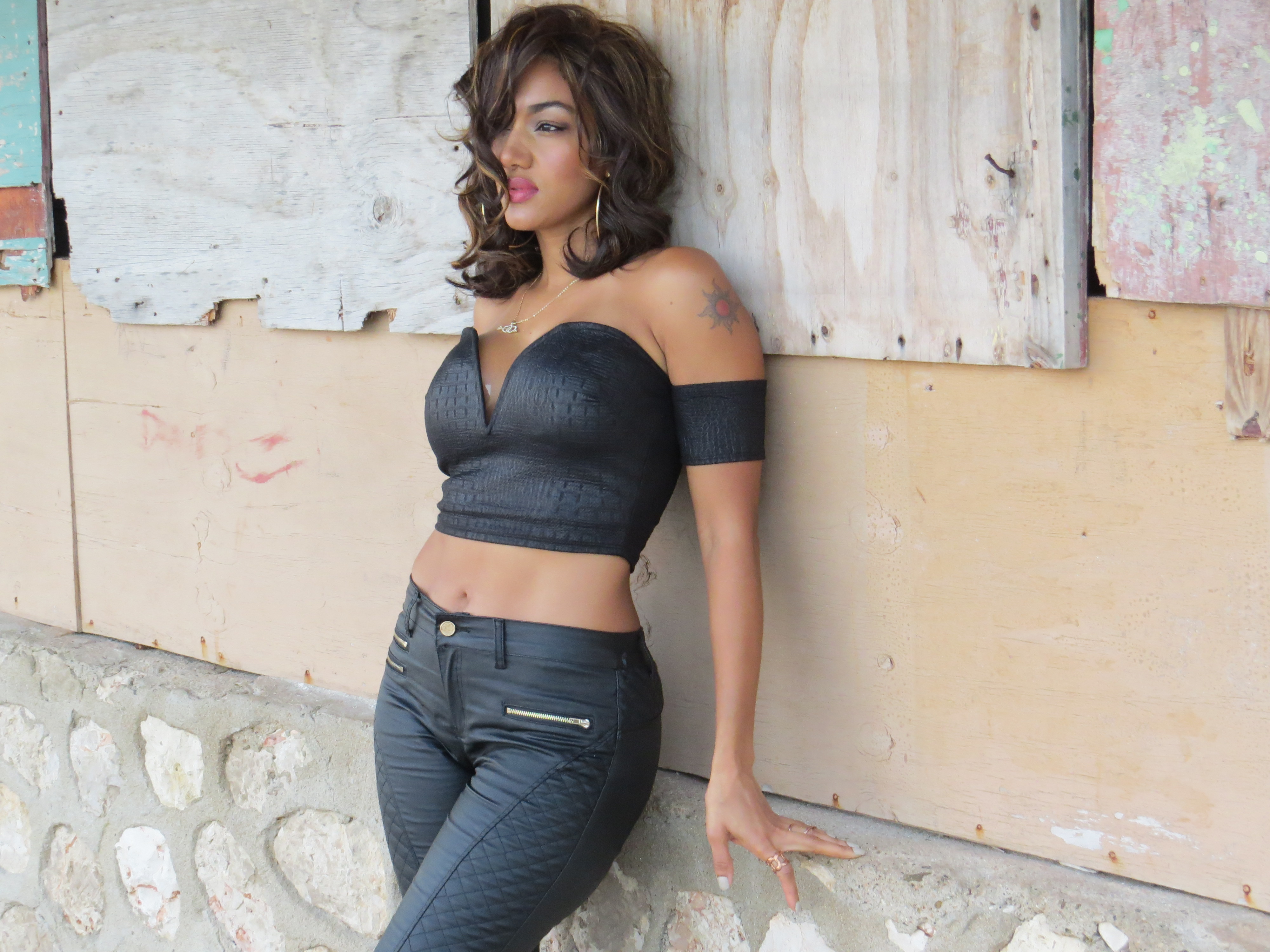 Photograph of Nyanda Behind the Scenes on the set of Run Away Music Video with Ian Thomas.